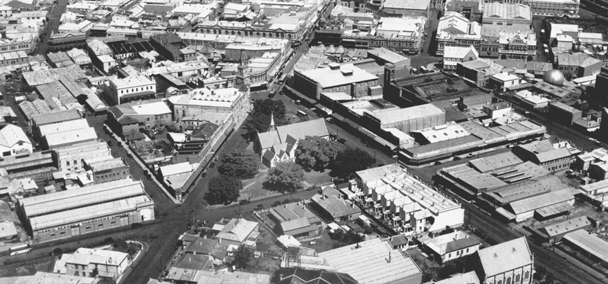 Aerial photograph of Fremantle.